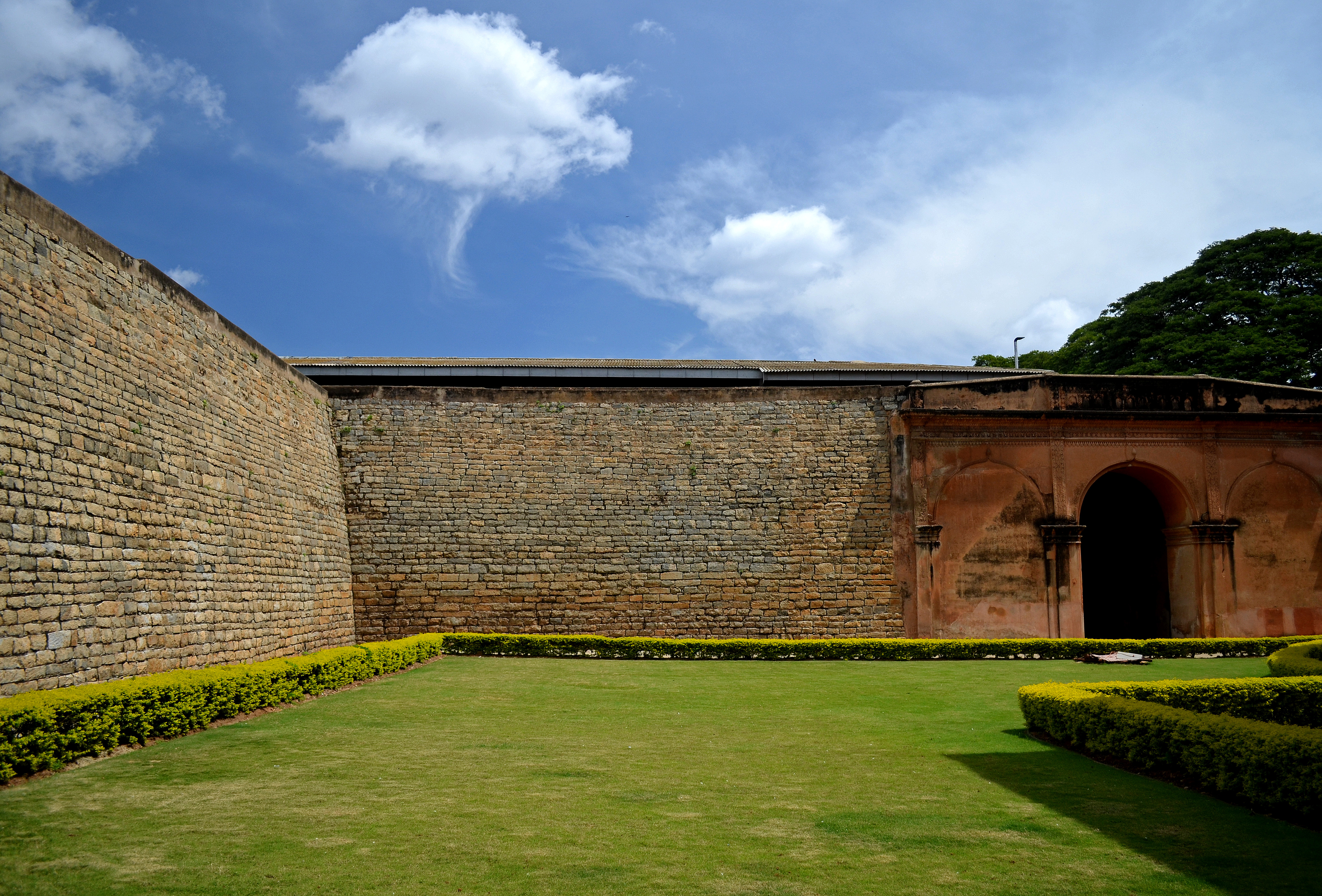 Bangalore fort was first established by the founder of Bangalore Kempe Gowda which was converted into the stone fort by Hyder Ali in the year 1758. Currently only a small part of the fort exists called Delhi gate